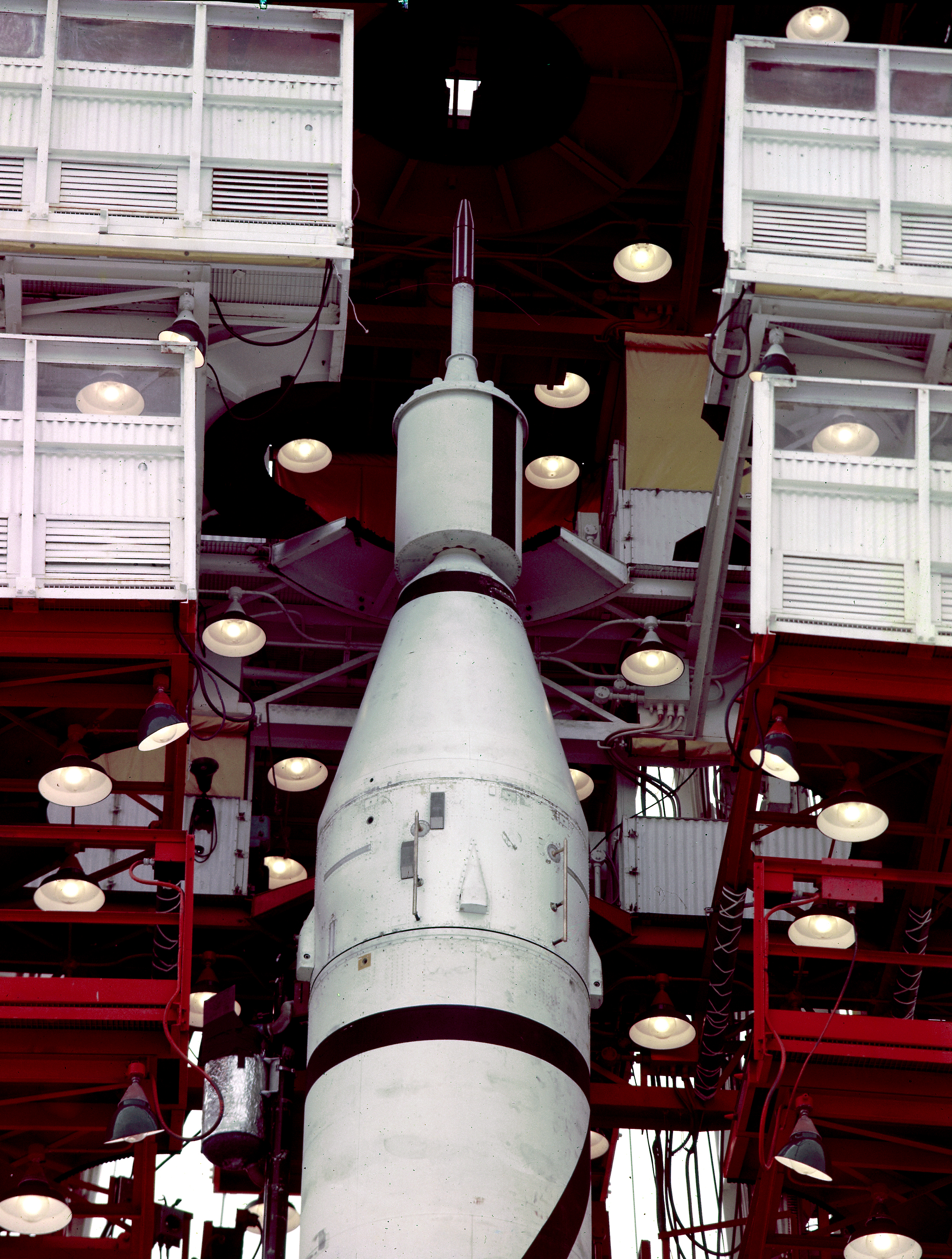 Explorer 1 atop a Jupiter-C in gantry. Jupiter-C carrying the first American satellite, Explorer 1, was successfully launched on January 31, 1958. The Jupiter-C launch vehicle consisted of a modified version of the Redstone rocket's first stage and two upper stages of clustered Baby Sergeant rockets developed by the Jet Propulsion Laboratory and later designated as Juno boosters for space launches